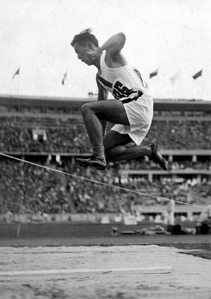 Naoto Tajima of Japan competes in the Men's triple jump during the Berlin Olympic at Olympic Stadium on August 6, 1936 in Berlin, Germany.